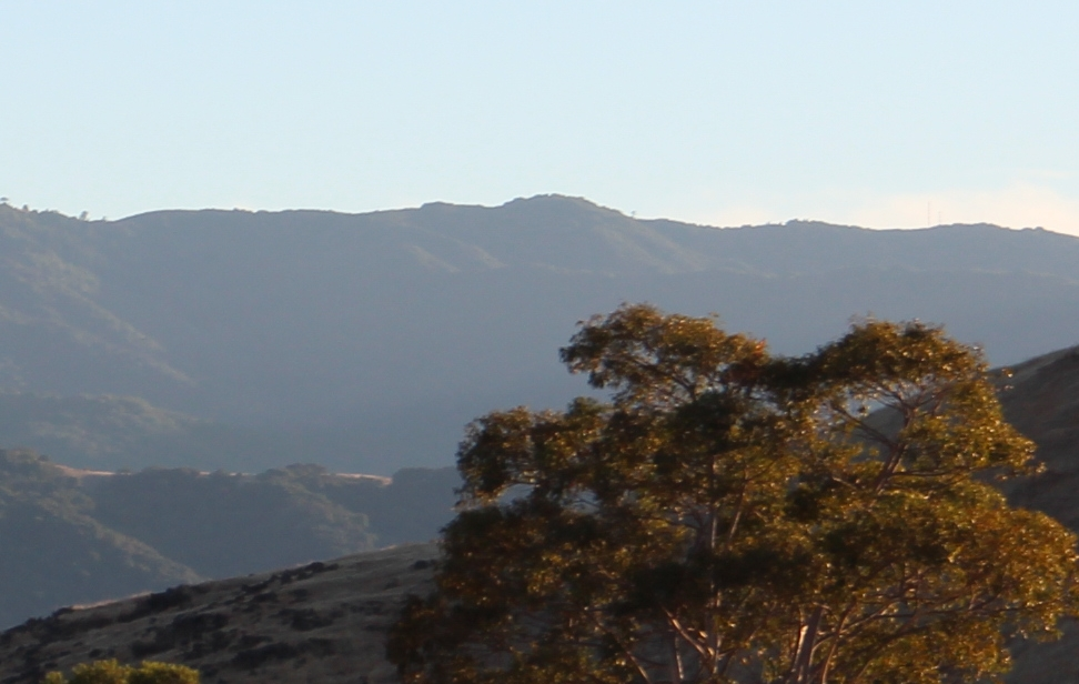 Mount Thayer viewed from Santa Teresa County Park